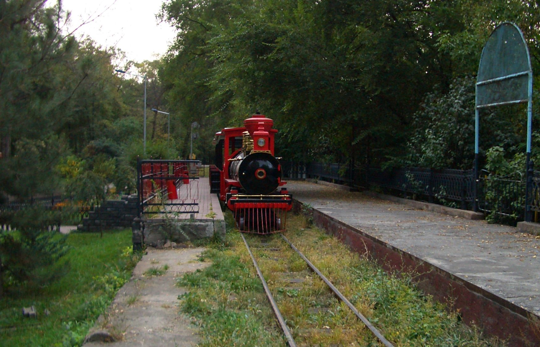 Children's Railway in Almaty's Central Parkt